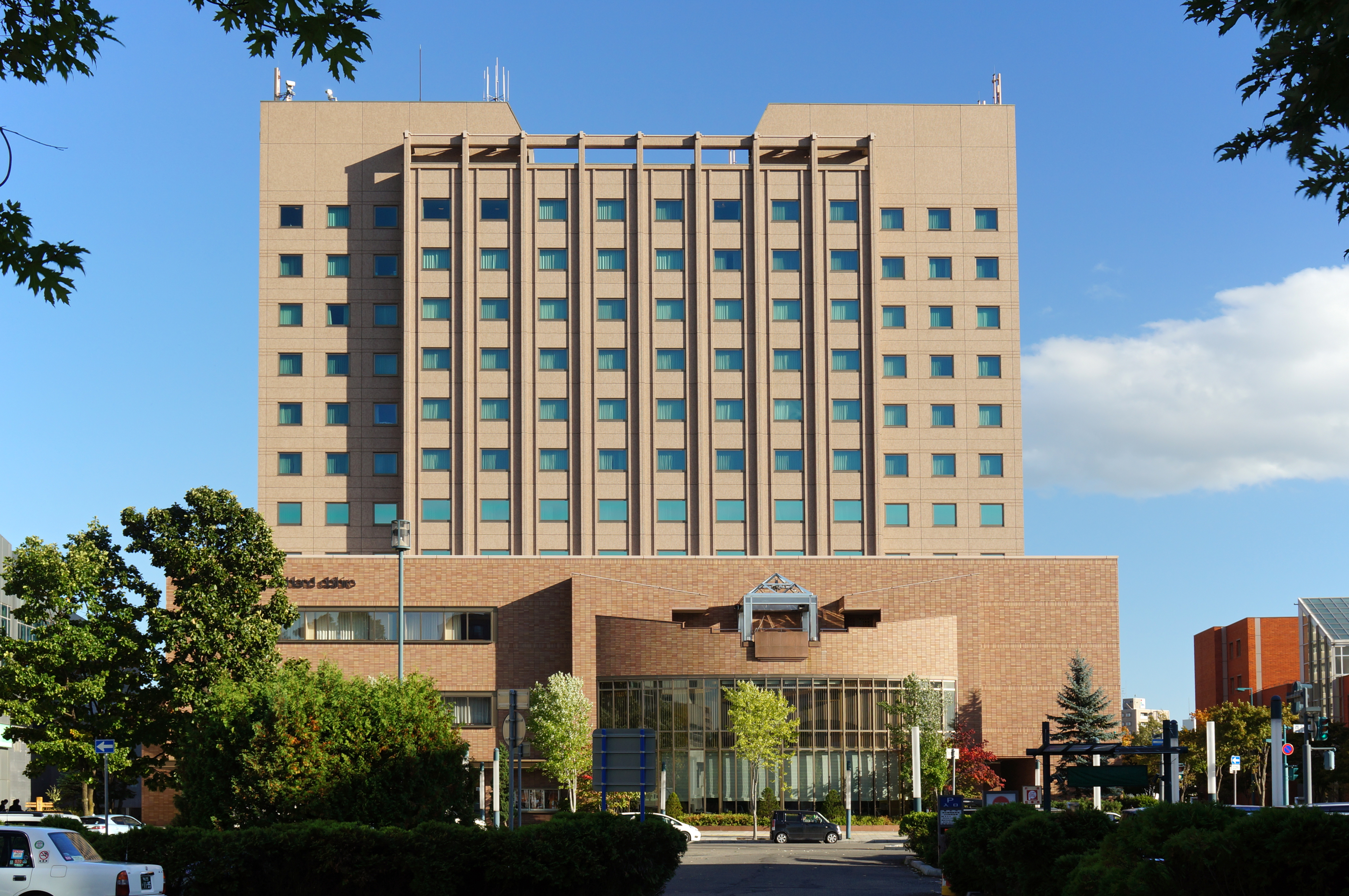 Hotel_Nikko_Northland_Obihiro in Obihiro, Hokkaido prefecture, Japan.